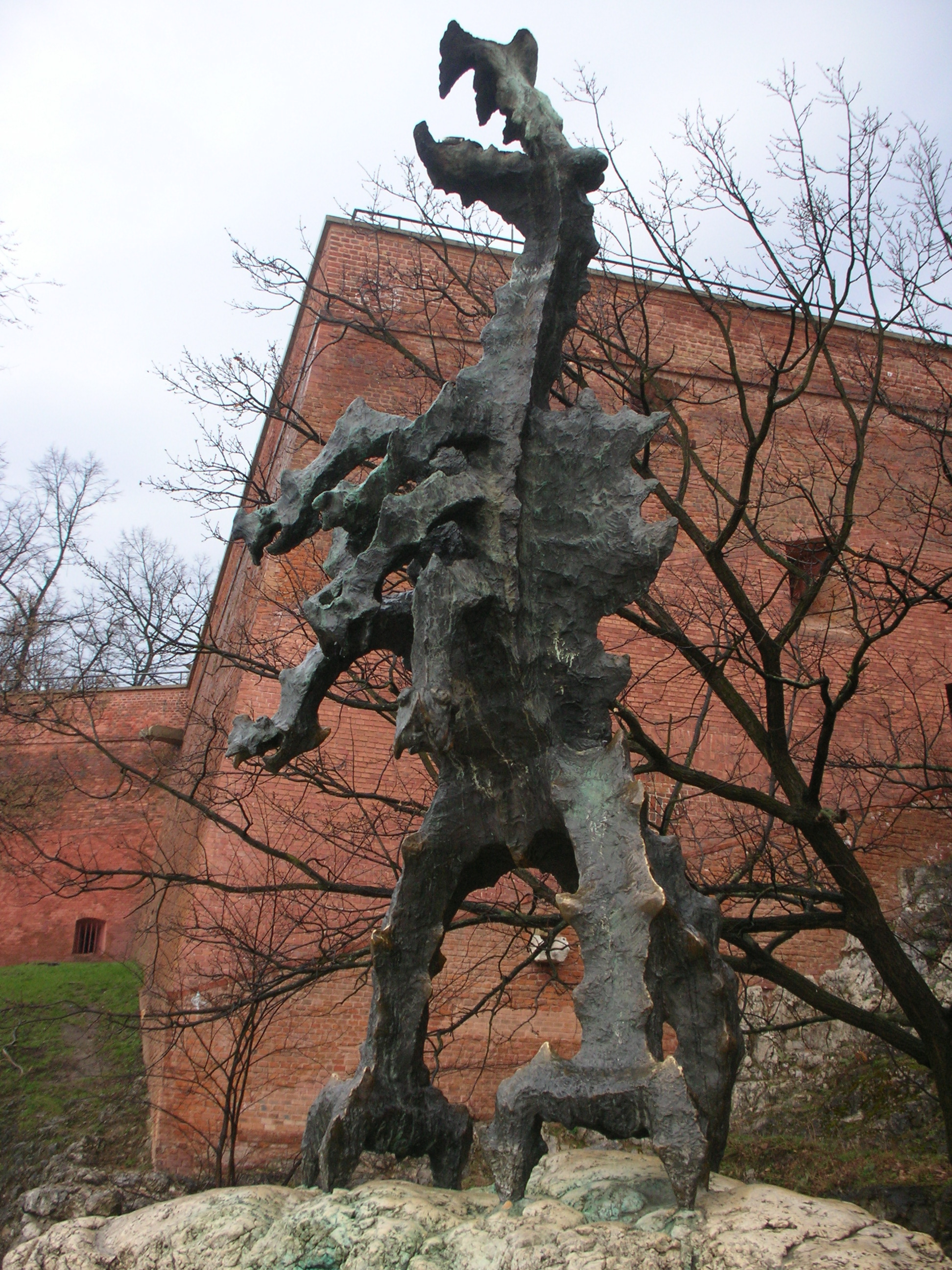 Castle of Wawel (Cracòvia)